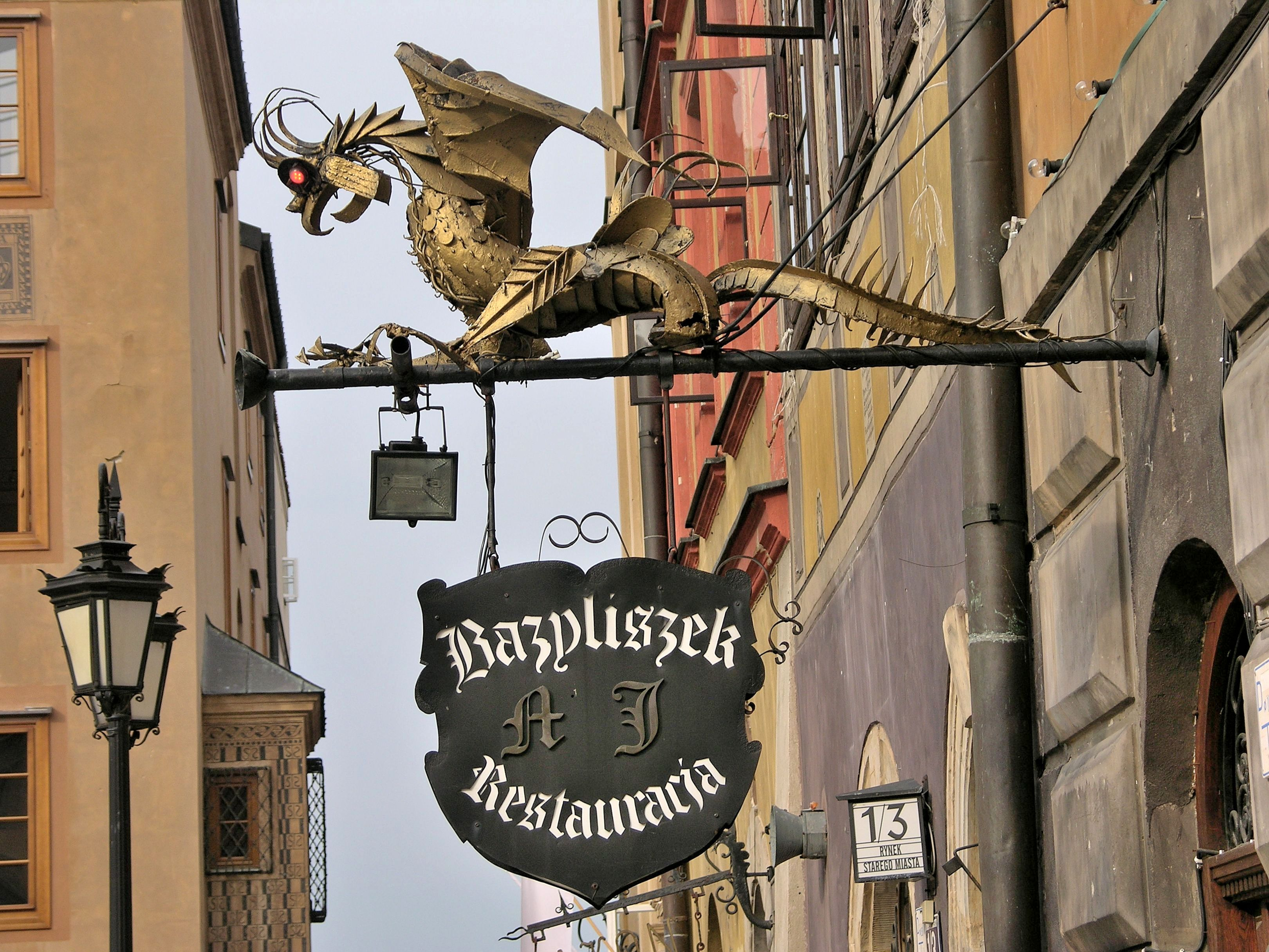 Entrance to Bazyliszek Restaurant at 5 Rynek Starego Miasta in Warsaw